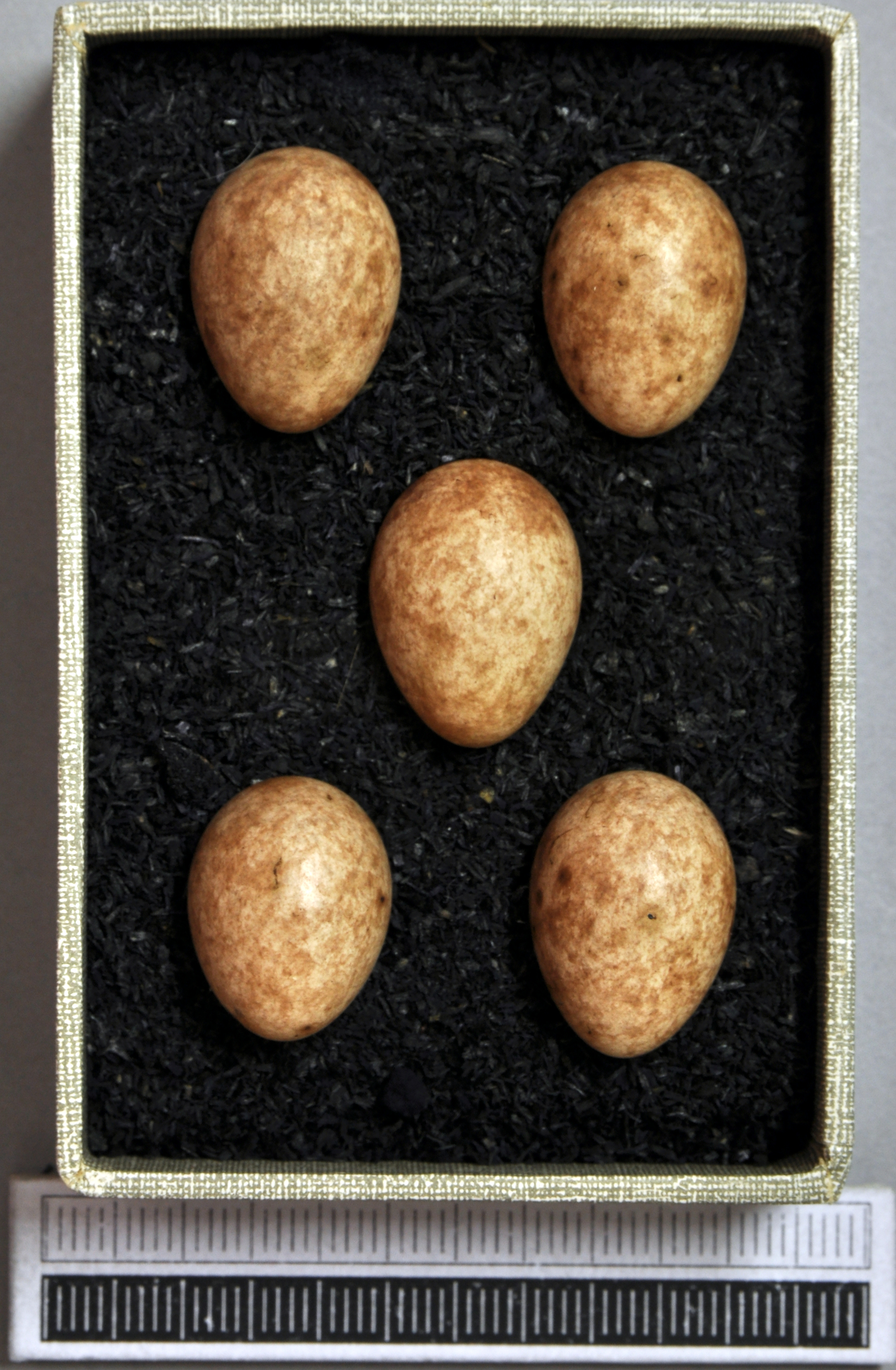 Eurasian blackcap Sylvia atricapilla , egg, Coll. Museum Wiesbaden